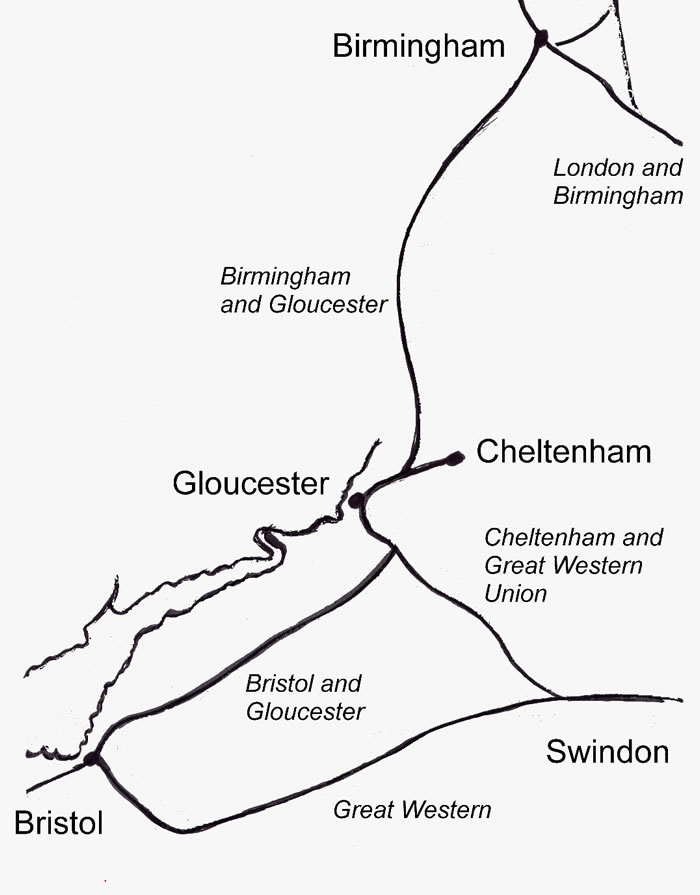 Sketch map of railways associated with Birmingham and Bristol.